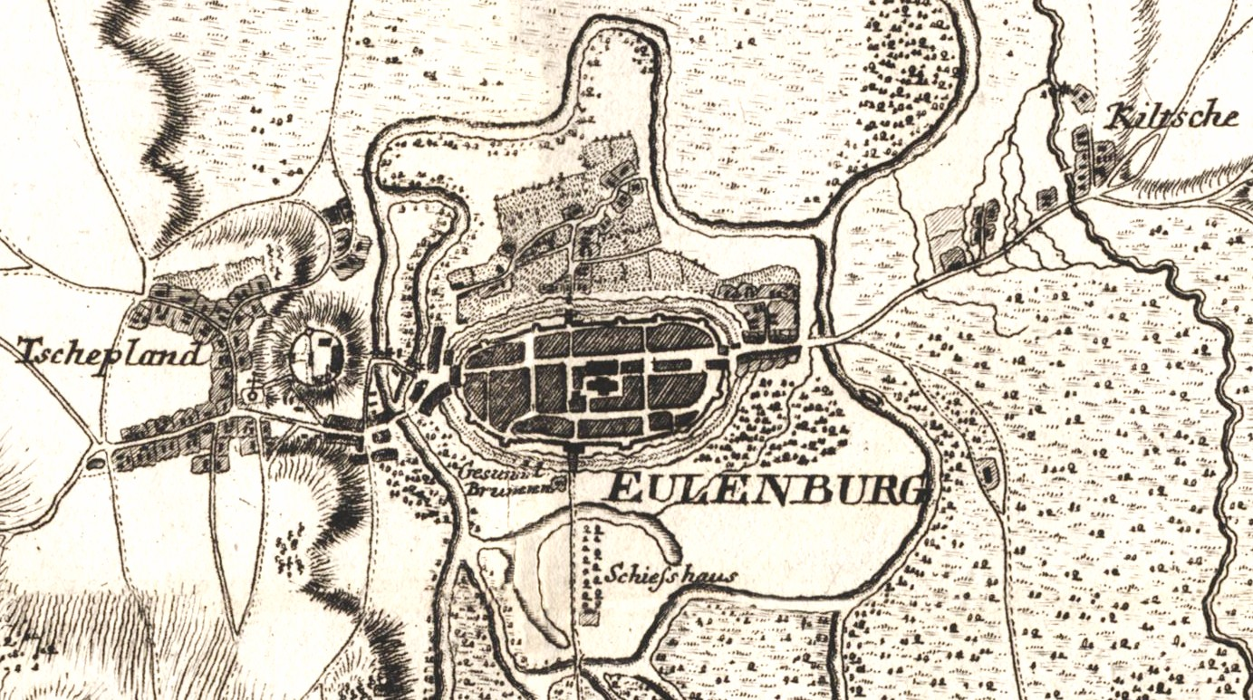 part (Eilenburg) of the map "Situations und Cabinets=Carte von einem anderen Teile des Churfürstentums Sachsen" Major Isaak Jacob von Petri